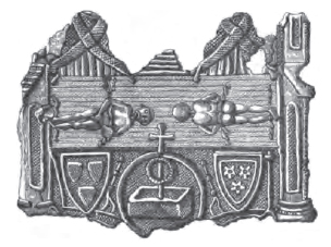 Drawing of a pilgrim badge found in the Seine river, under the "Pont-au-Change" bridge (Paris, France), in 1855. The badge bears a representation of the Shroud of Lirey (Shroud of Turin), the arms of Charny and those of Vergy. The badge is in the Musée National du Moyen Âge, Thermes de Cluny, Paris.